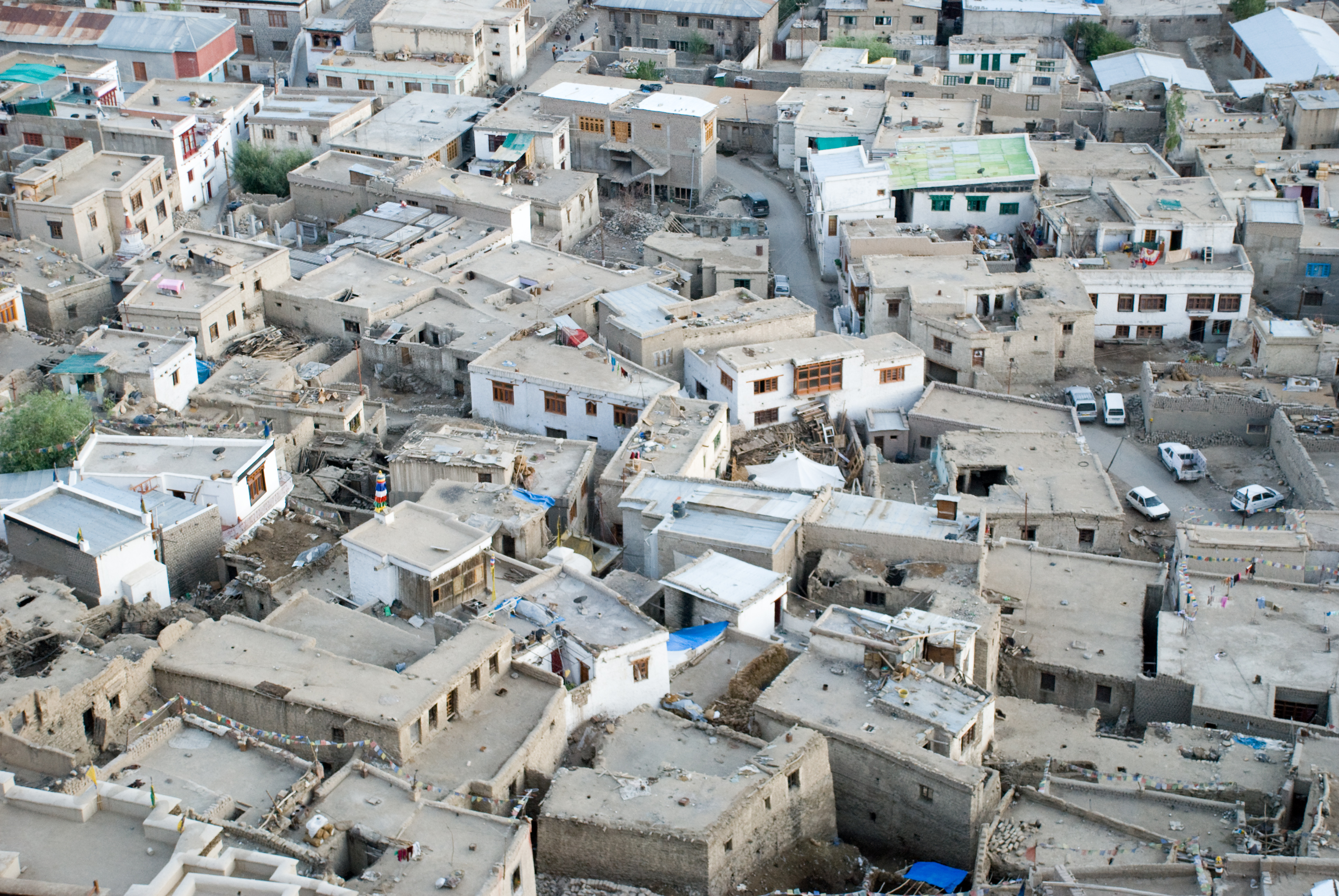 Leh Old Town